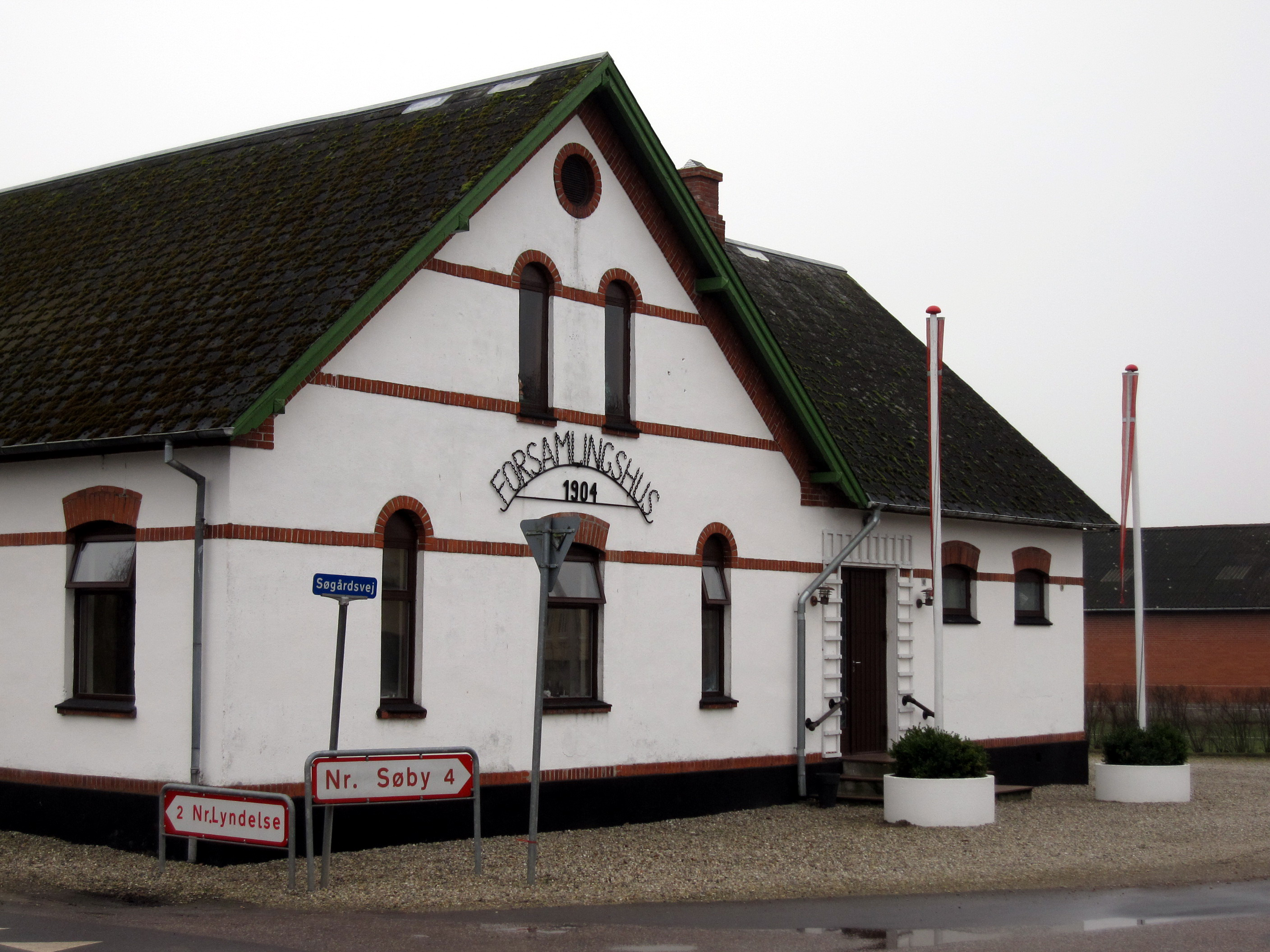 Community house in the village of Dommestrup, Fyn (Funen), Denmark. Built 1904.